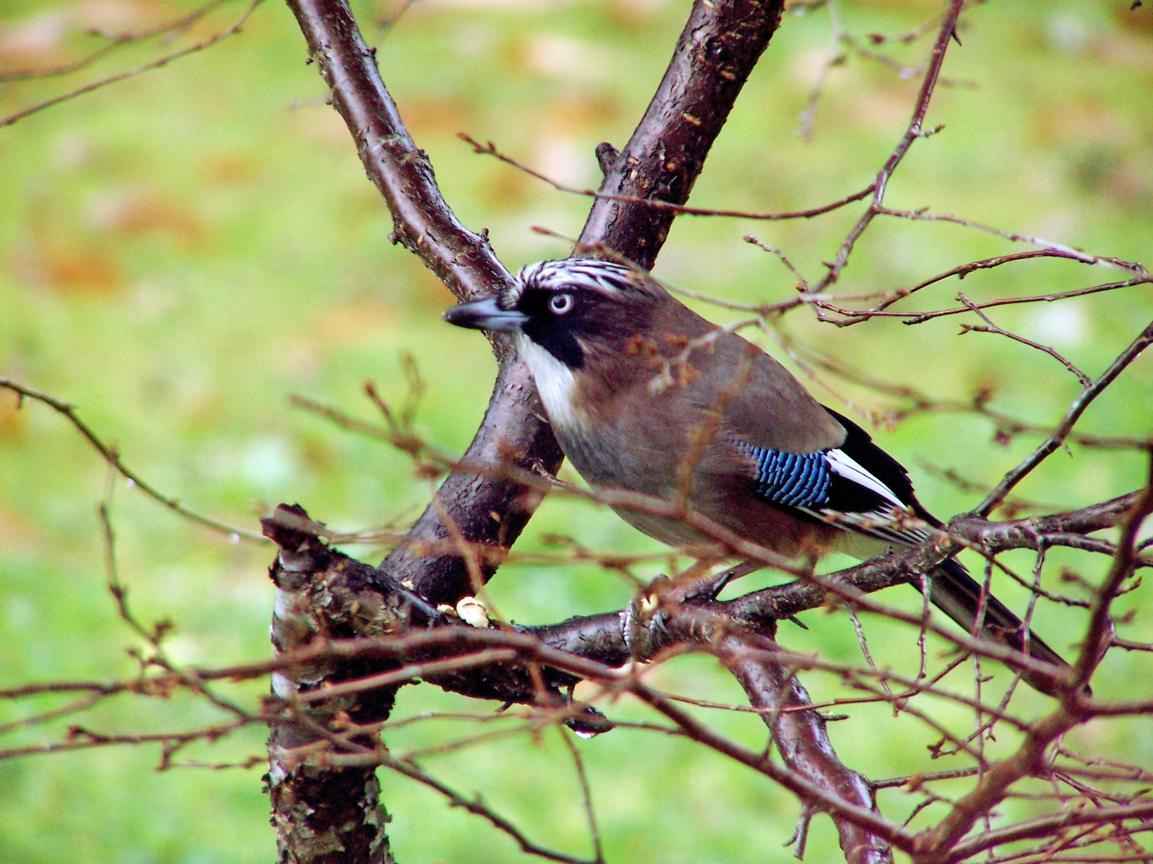 My own photo, Eurasian Jay, Garrulus glandarius japonicus, Fukushima, Japan.